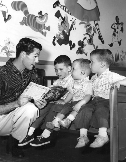 Photo of Johnny Carson reading a story with his three sons in 1955. From left: Kit, Cory and Ricky.